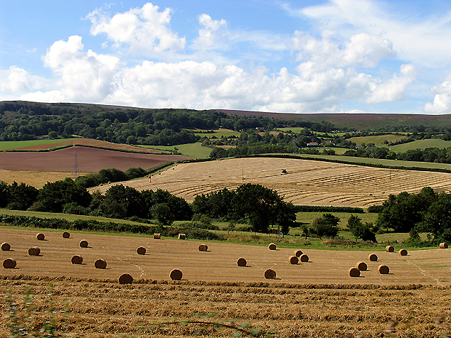 Ge-Mare Farmland west of the A39 looking towards Crooked Copse from the A39. This farmland is situated in the centre of the lower half of the grid square.